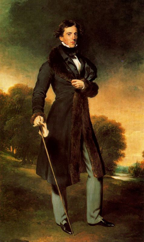 Portrait by Sir Thomas Lawrence of David Lyon (politician and merchant)